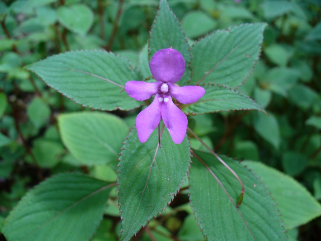 Impatiens zombensis at Kirstenbosch Botanical Gardens Cape Town